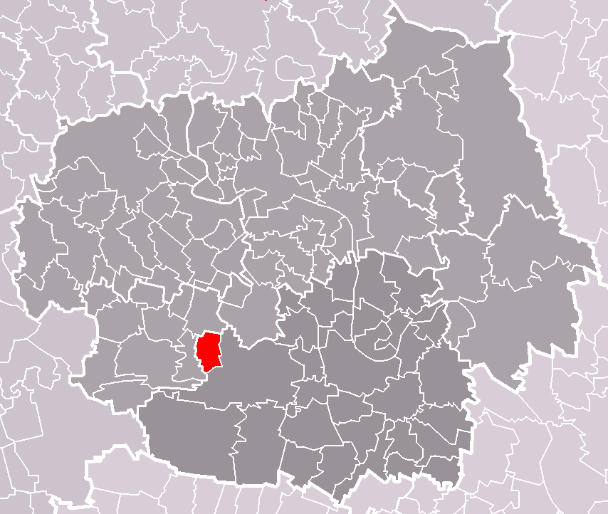 Location of Žabovřesky nad Ohří municipality within Litoměřice District and administrative area of Roudnice nad Labem as a Municipality with Extended Competence.